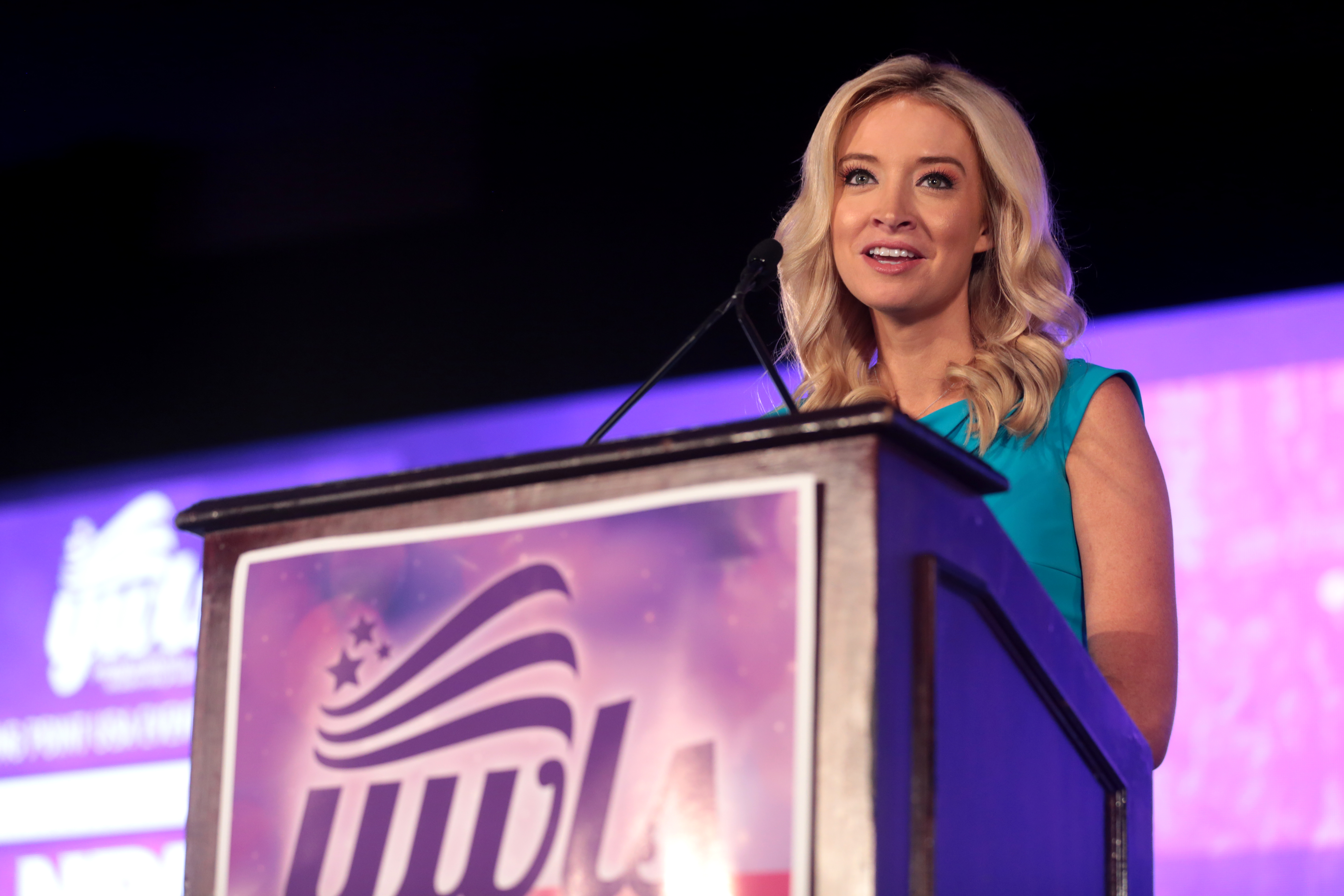 Kayleigh McEnany speaking with attendees at the 2018 Young Women's Leadership Summit hosted by Turning Point USA at the Hyatt Regency DFW Hotel in Dallas, Texas.